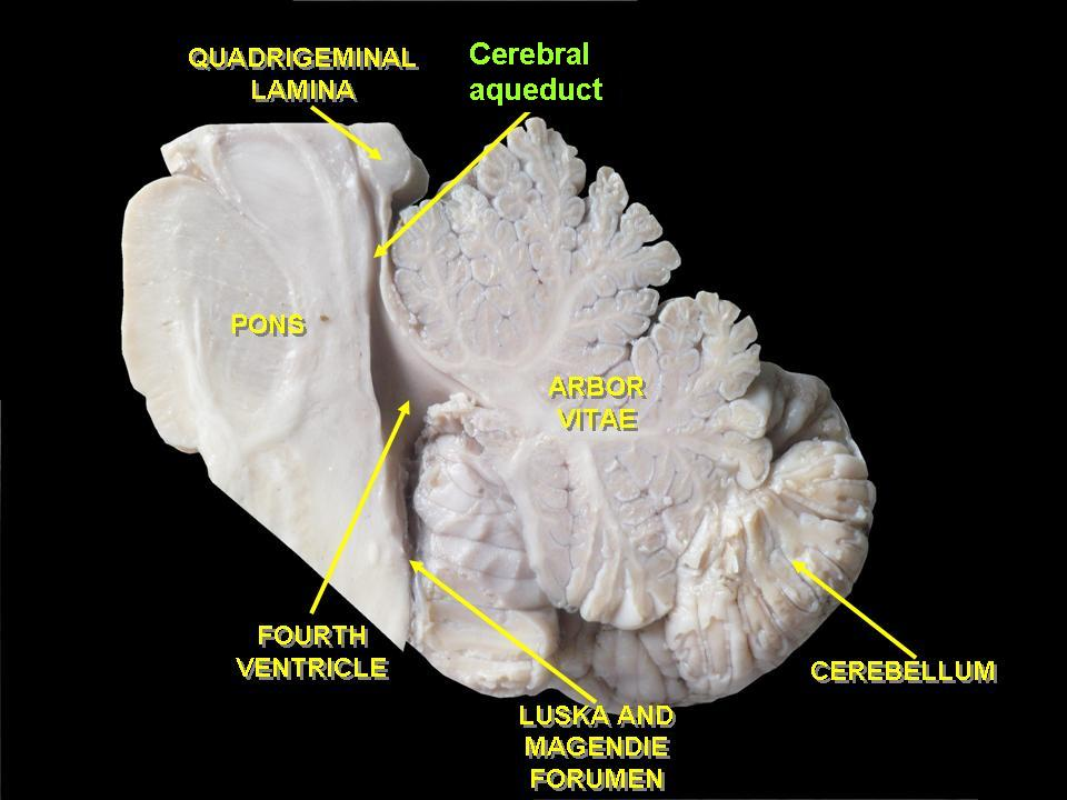 Anatomical dissections